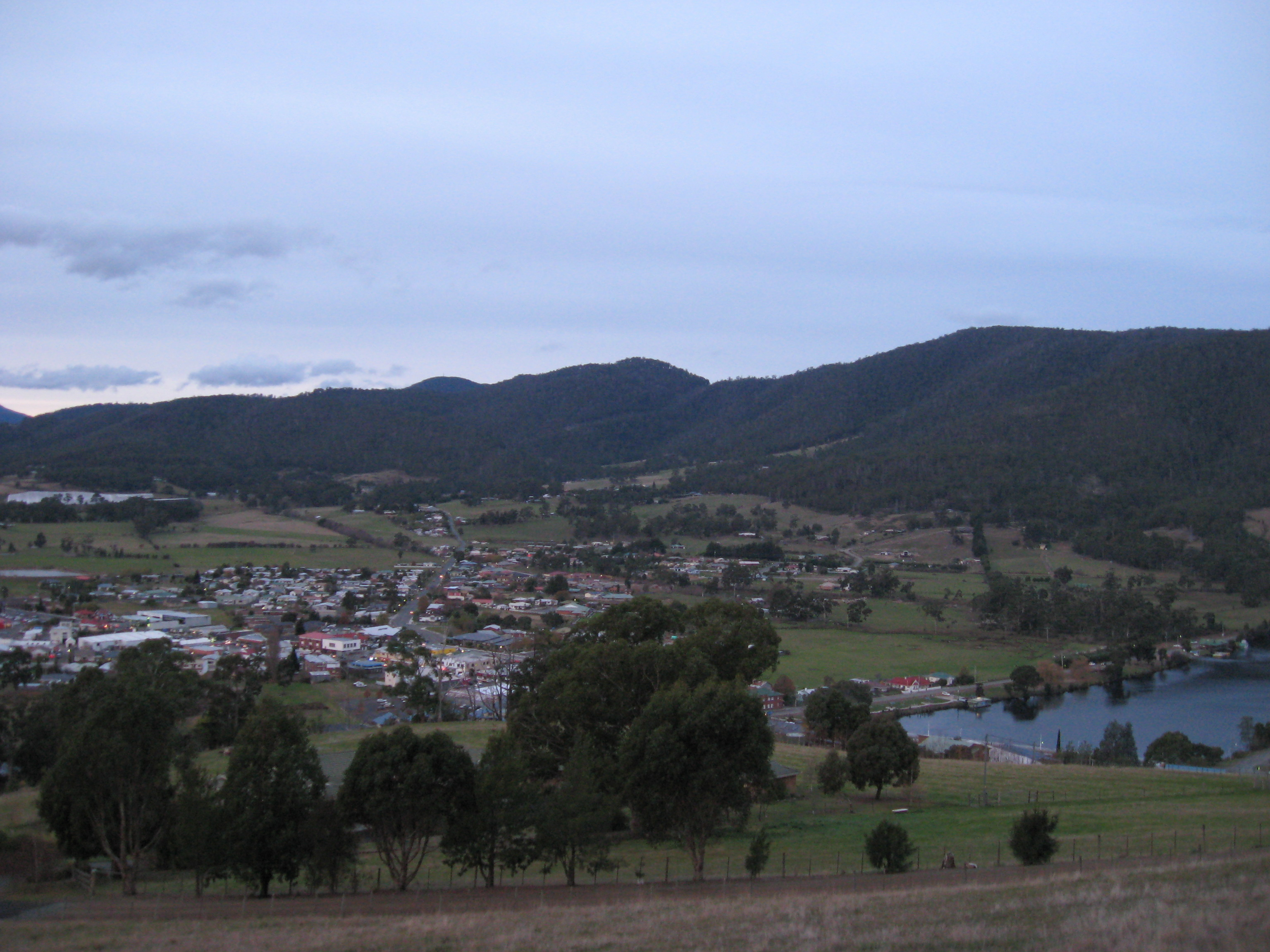 Huonville (Township) from Scenic Hill